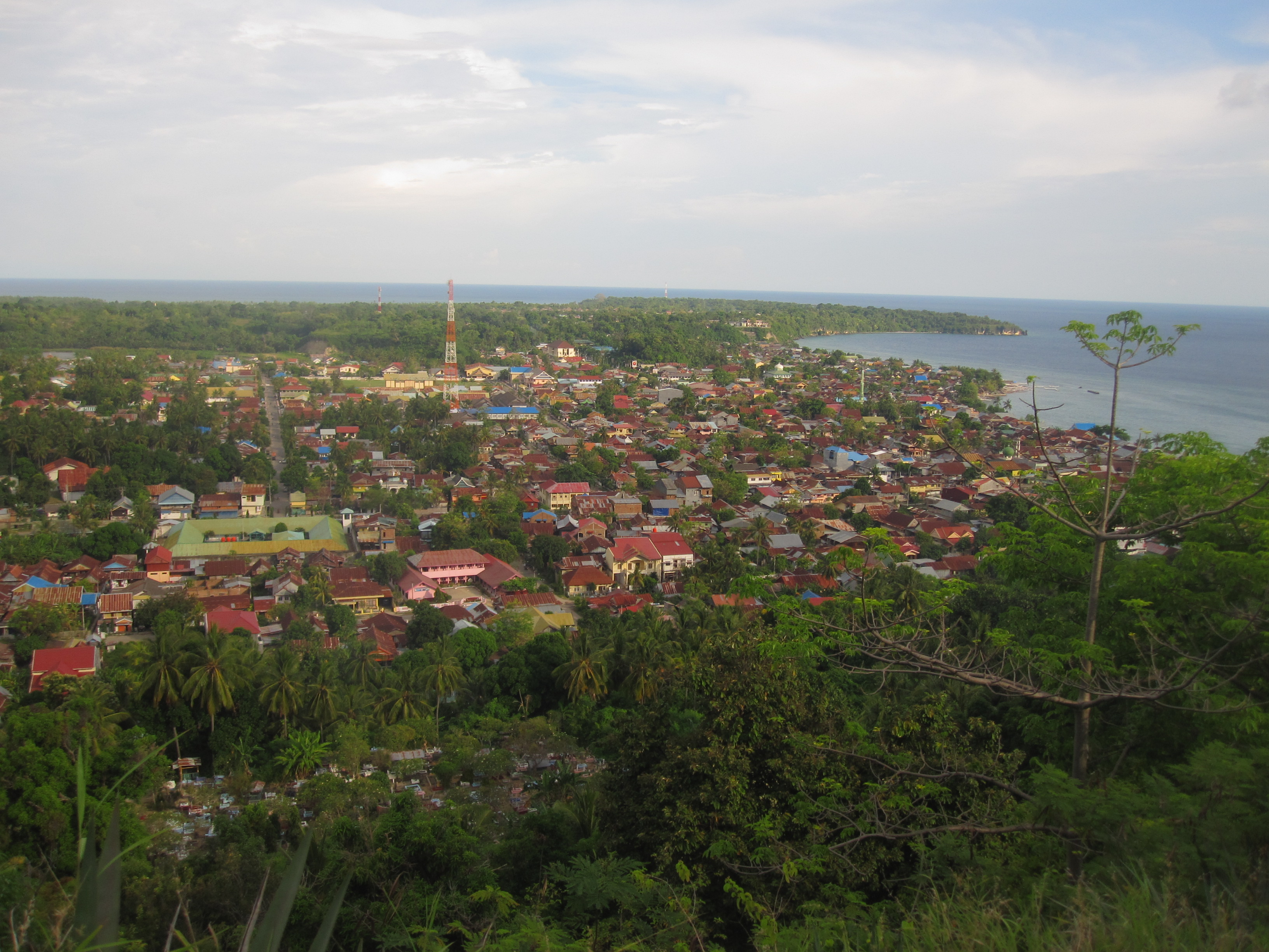 The City of Majene from Above